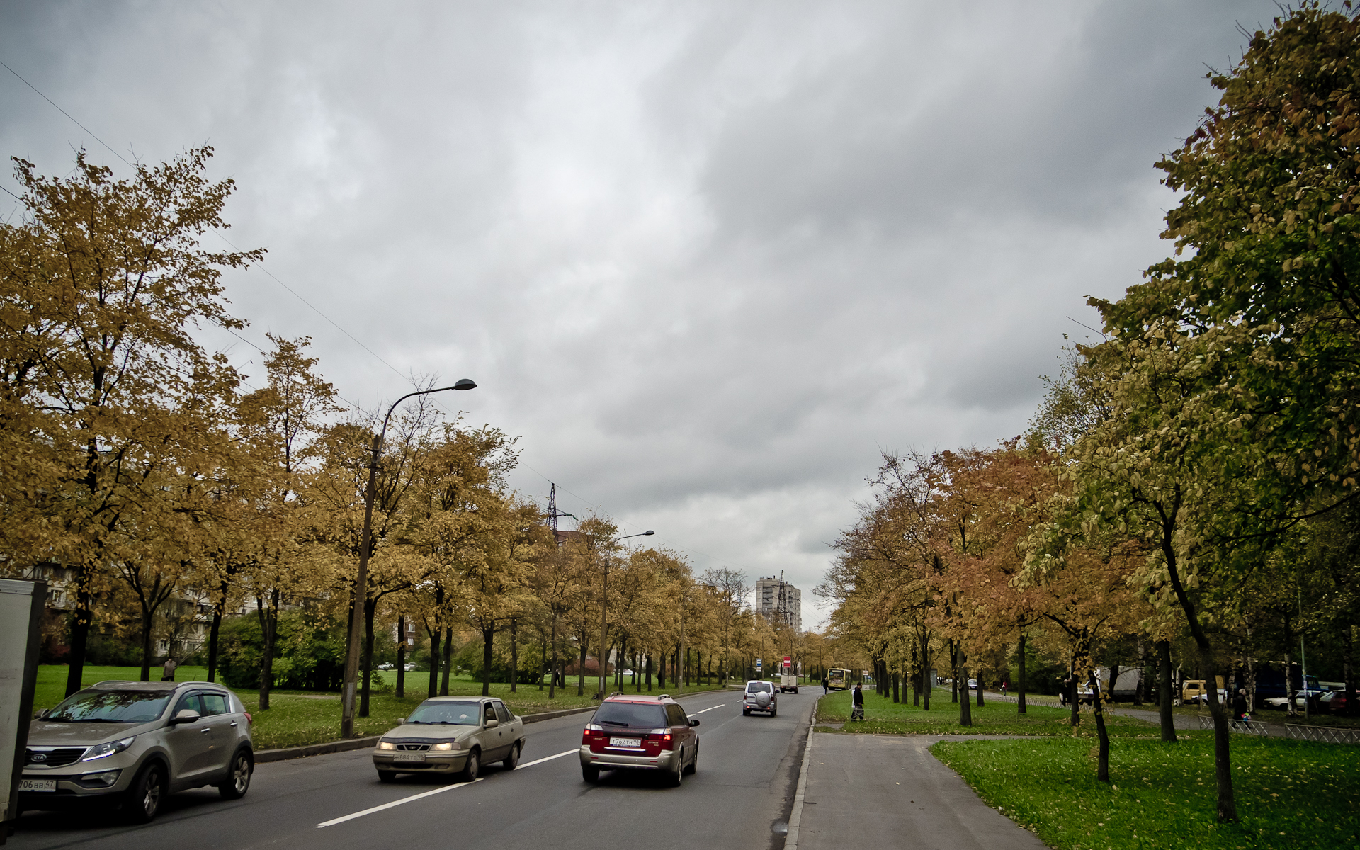 Spb, Vavilovykh street